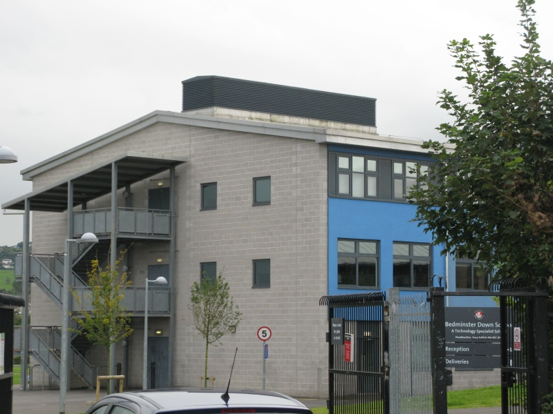 Bedminster Down School, Bristol, from Tyntesfield Road. ST5769 :: Bedminster Down School, Bristol, from Tyntesfield Road, near to Bishopsworth, Bristol, Great Britain